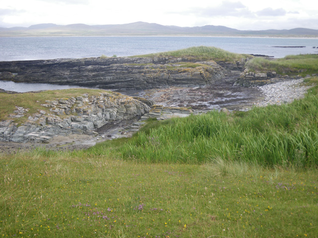 Rocky cove at Ardnave Point, near to Ardnave, Argyll And Bute, Great Britain.